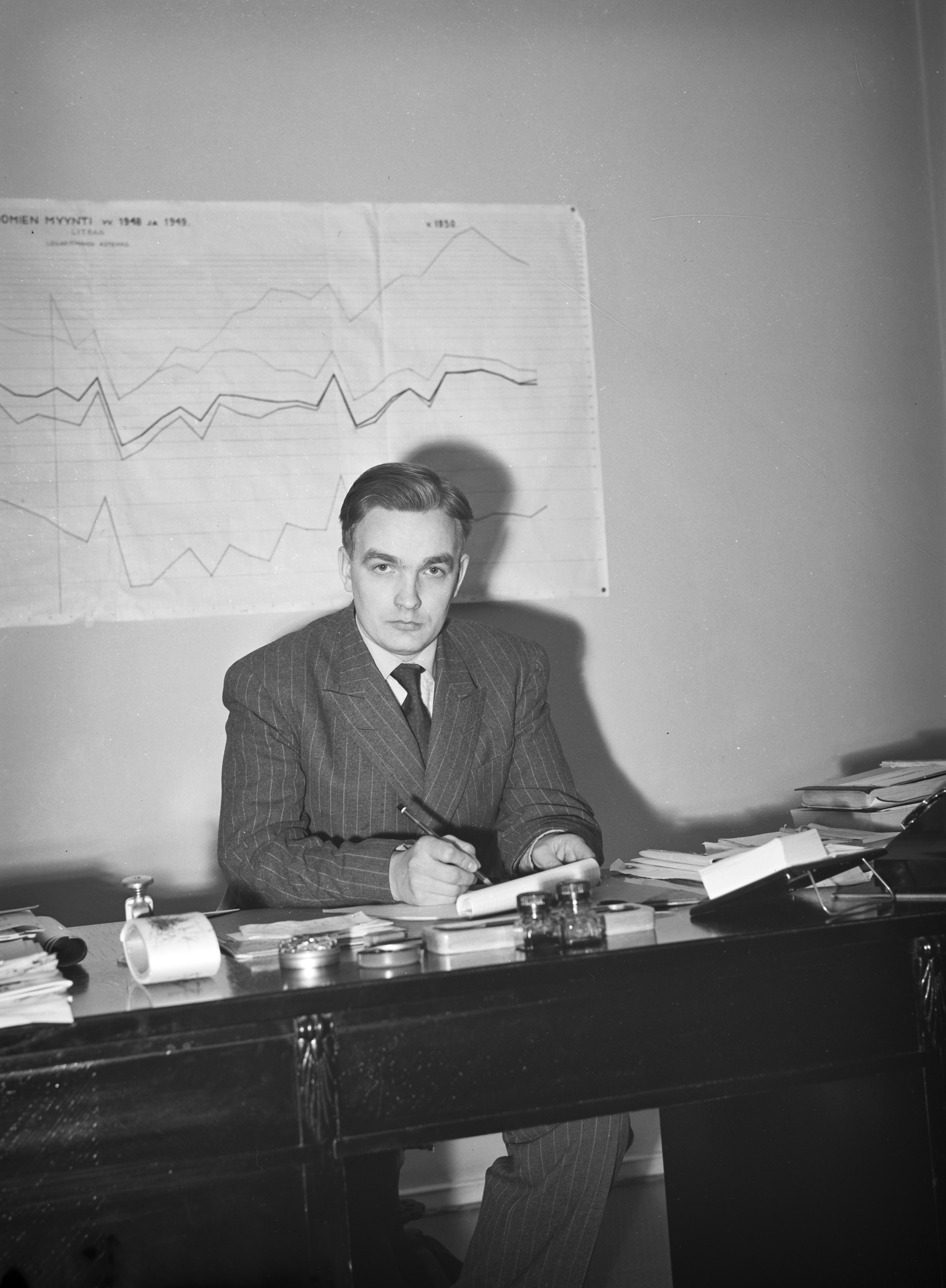 Photograph of the Finnish political scientist Pekka Kuusi (1917–1989).